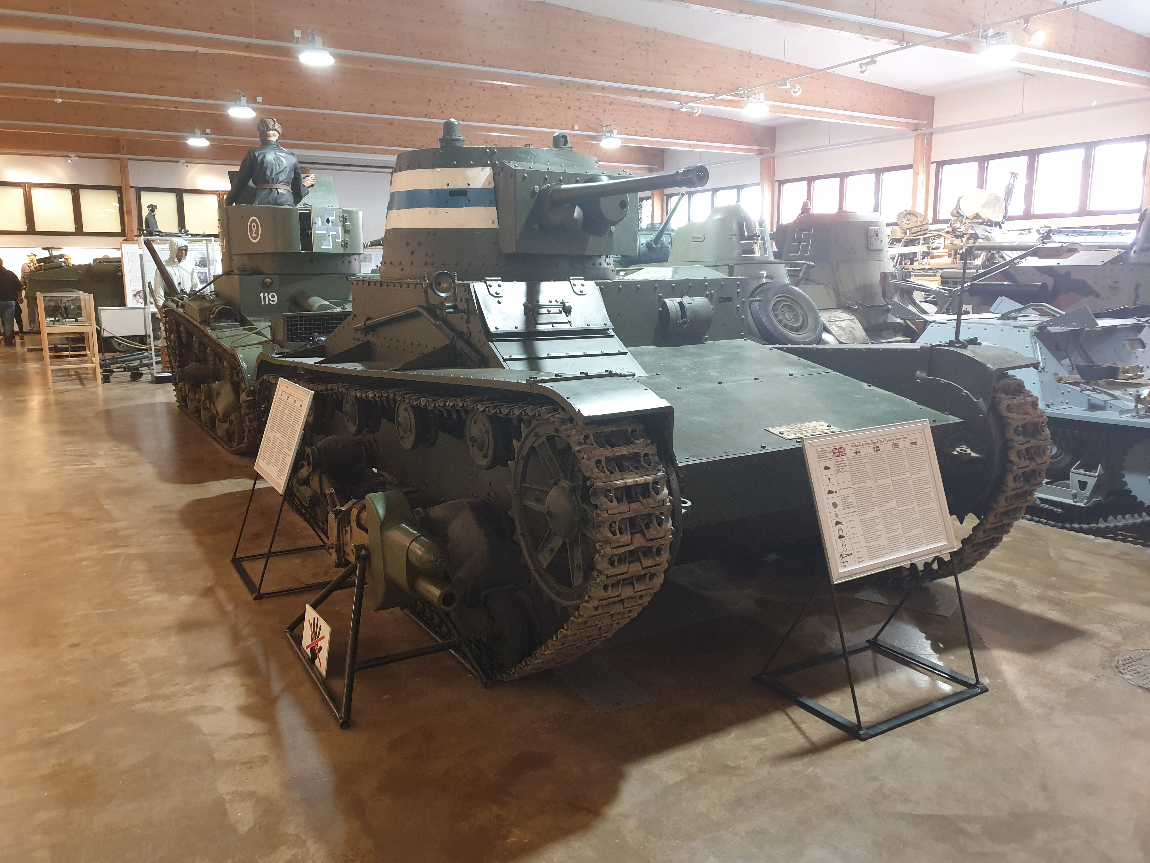 Vickers 6-Ton tank in Parola tank museum, Finland. Armed with a Russian 45mm 20-K cannon.